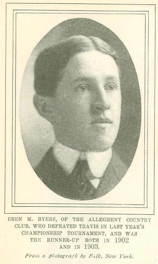 Golfer, socialite and industrialist Eben Byers in 1903